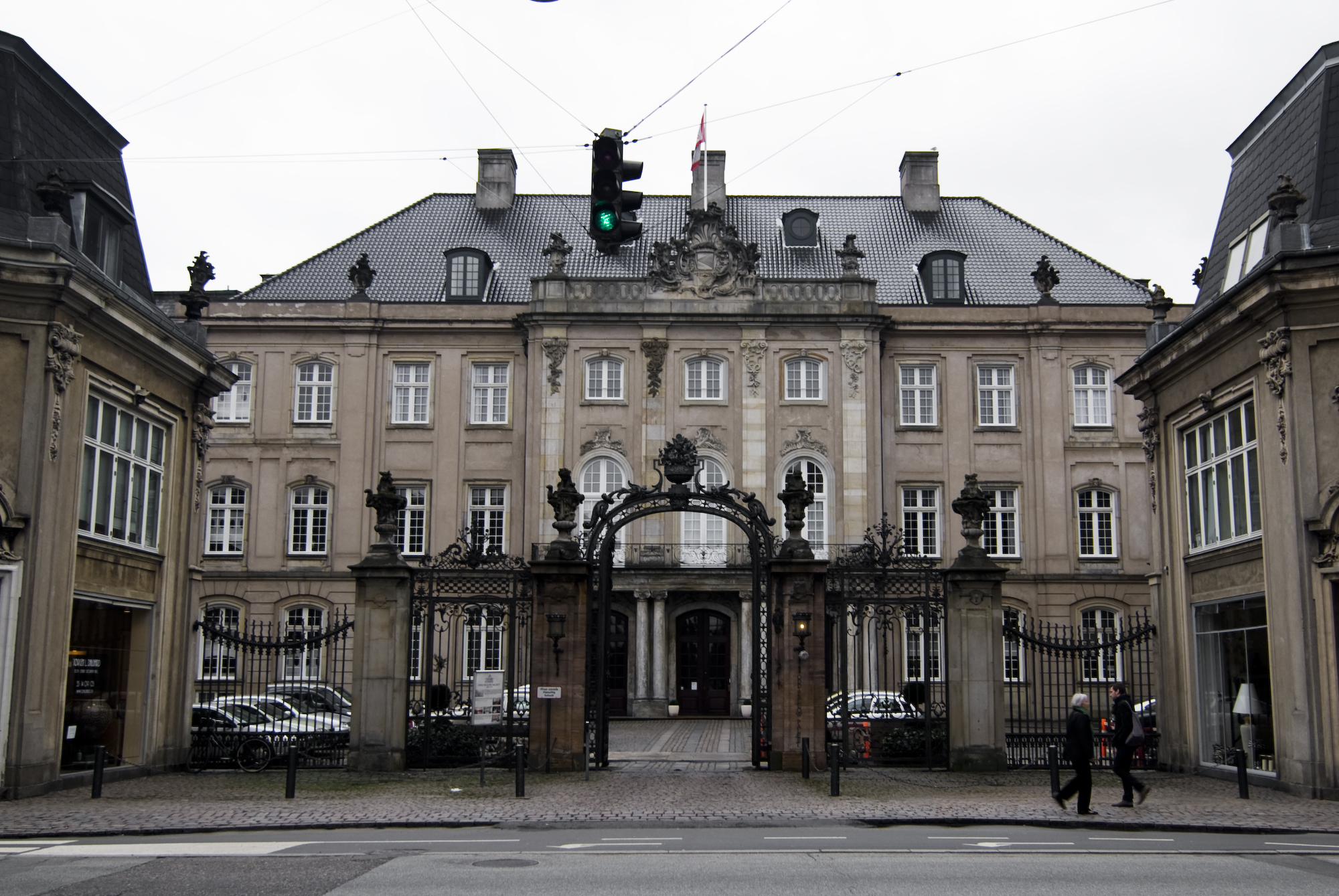 The Odd Fellow Mansion (da: Odd Fellow Palæet). This photo was uploaded as a part of an conceptual idea: FindVej NoPic.